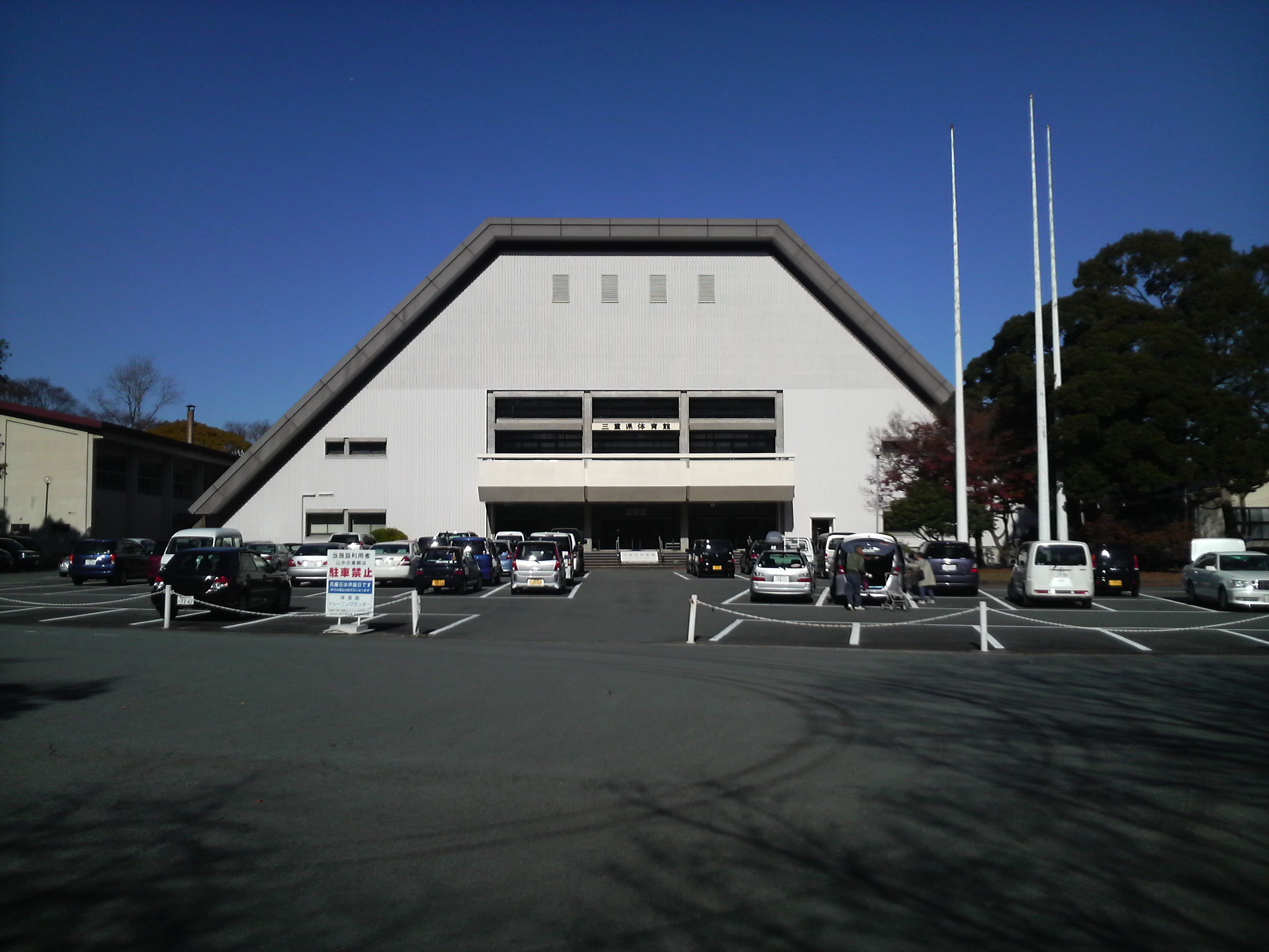 The "Mie prefectural gymnasium" in "Mie Kyogijyo"(Mie, Japan).